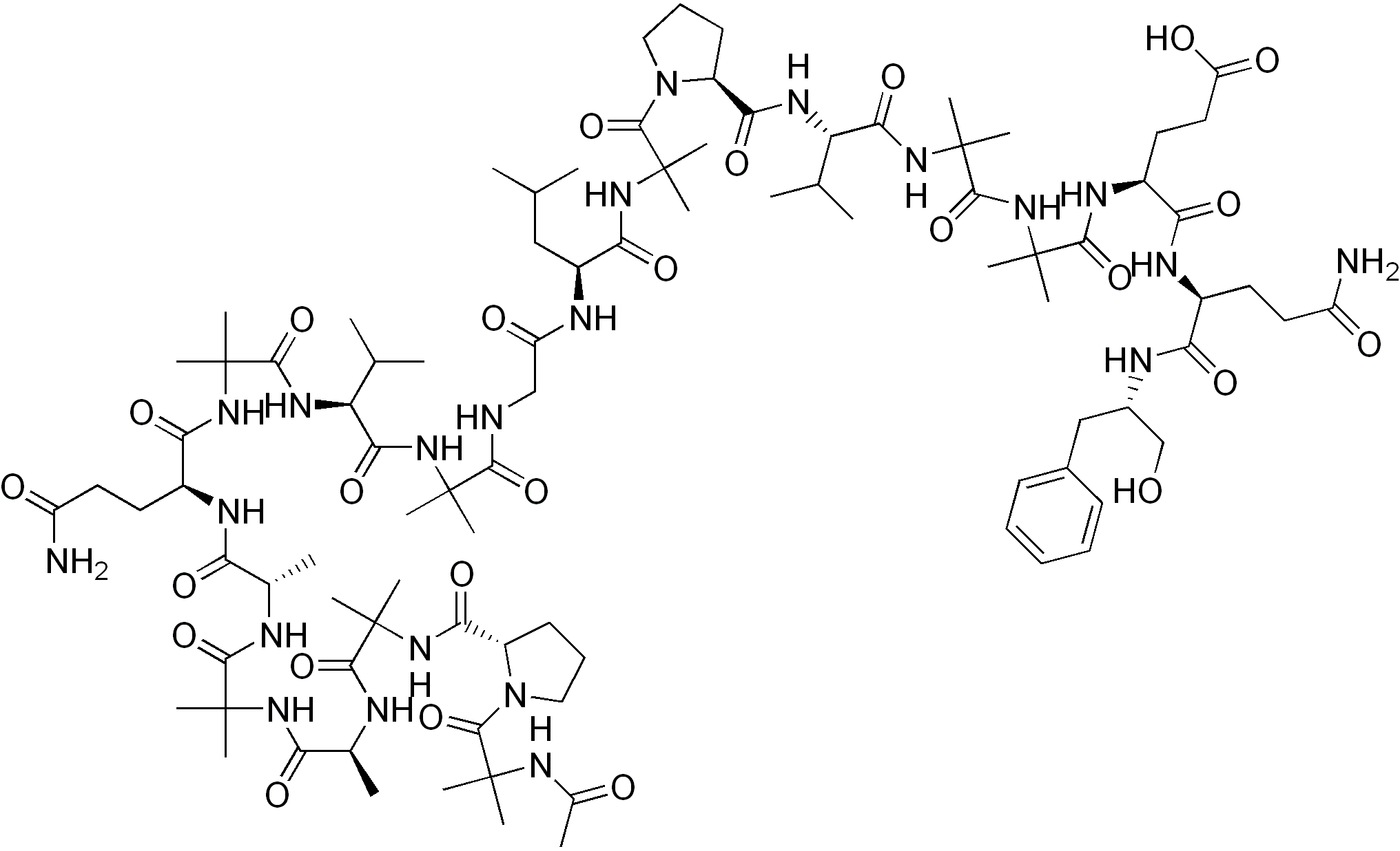 chemical structure of alamethicin